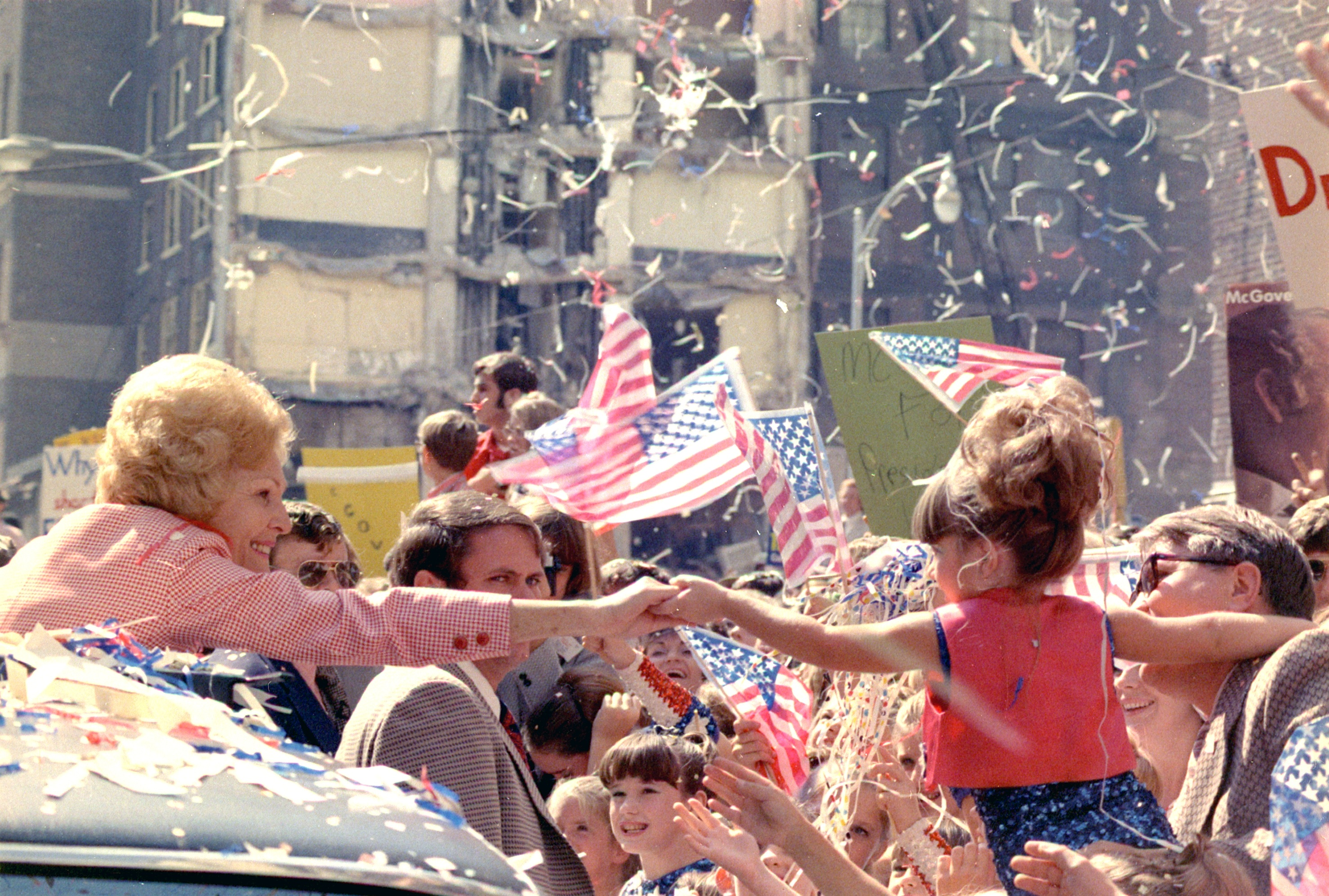 Mrs. Nixon reaching out to a little girl from her car in a campaign motorcade in Atlanta, Georgia.